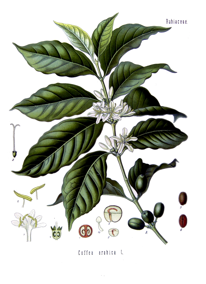 Coffea arabica from Köhler's Medizinal-Pflanzen in naturgetreuen Abbildungen mit kurz erläuterndem Texte.